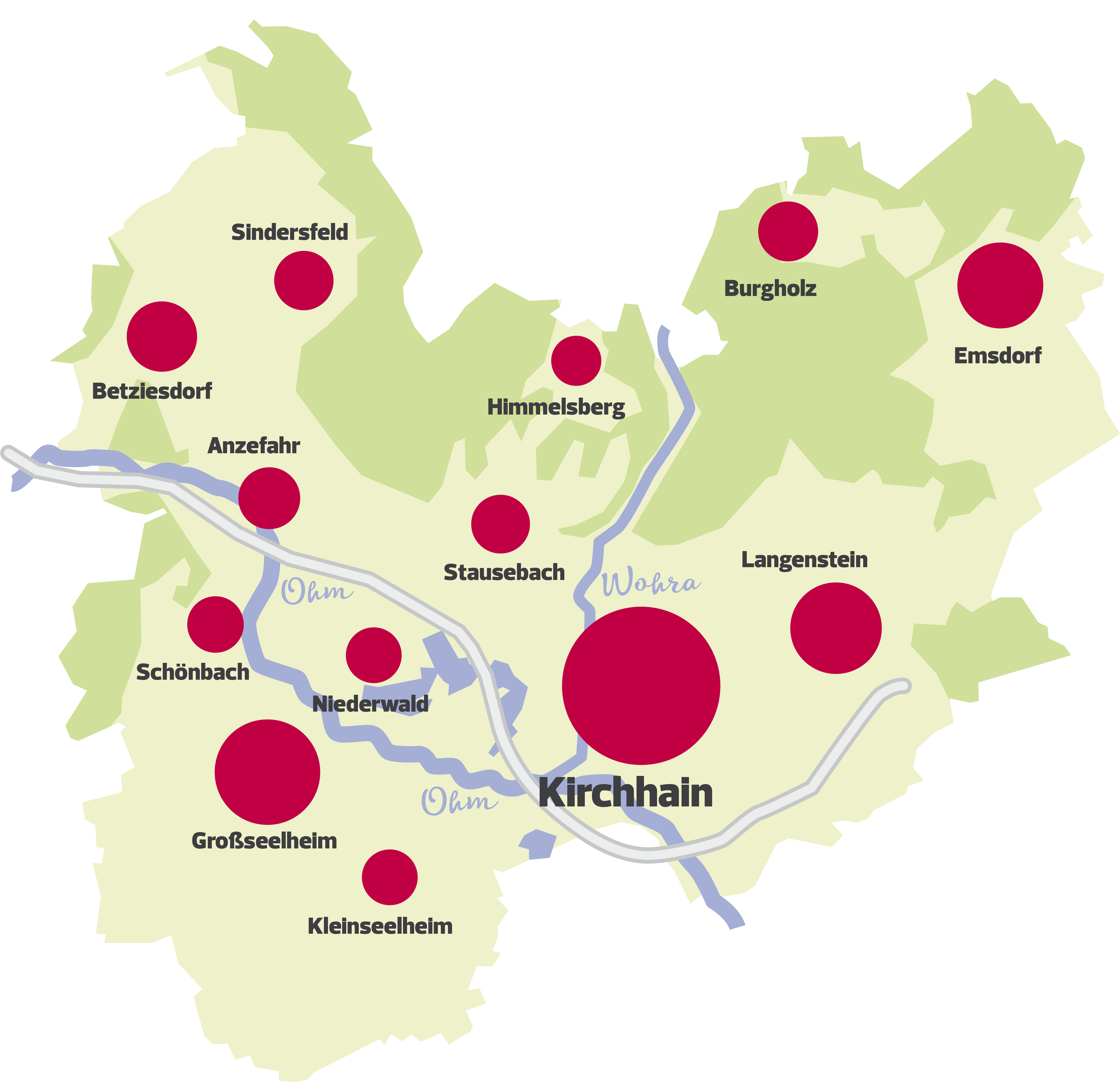 Map of Kirchhain with all twelve districts